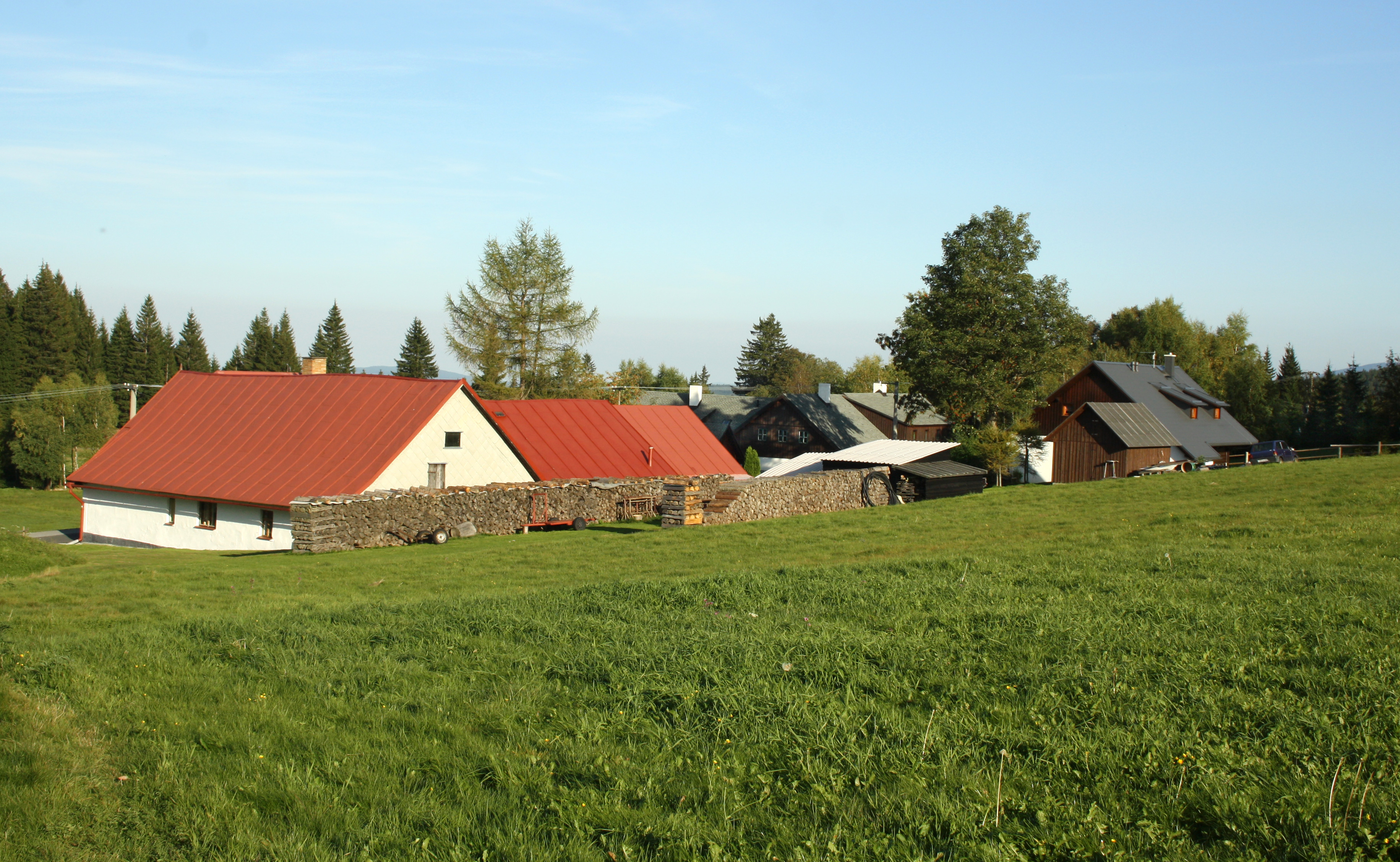 Zadov, part of Stachy village, Czech Republic